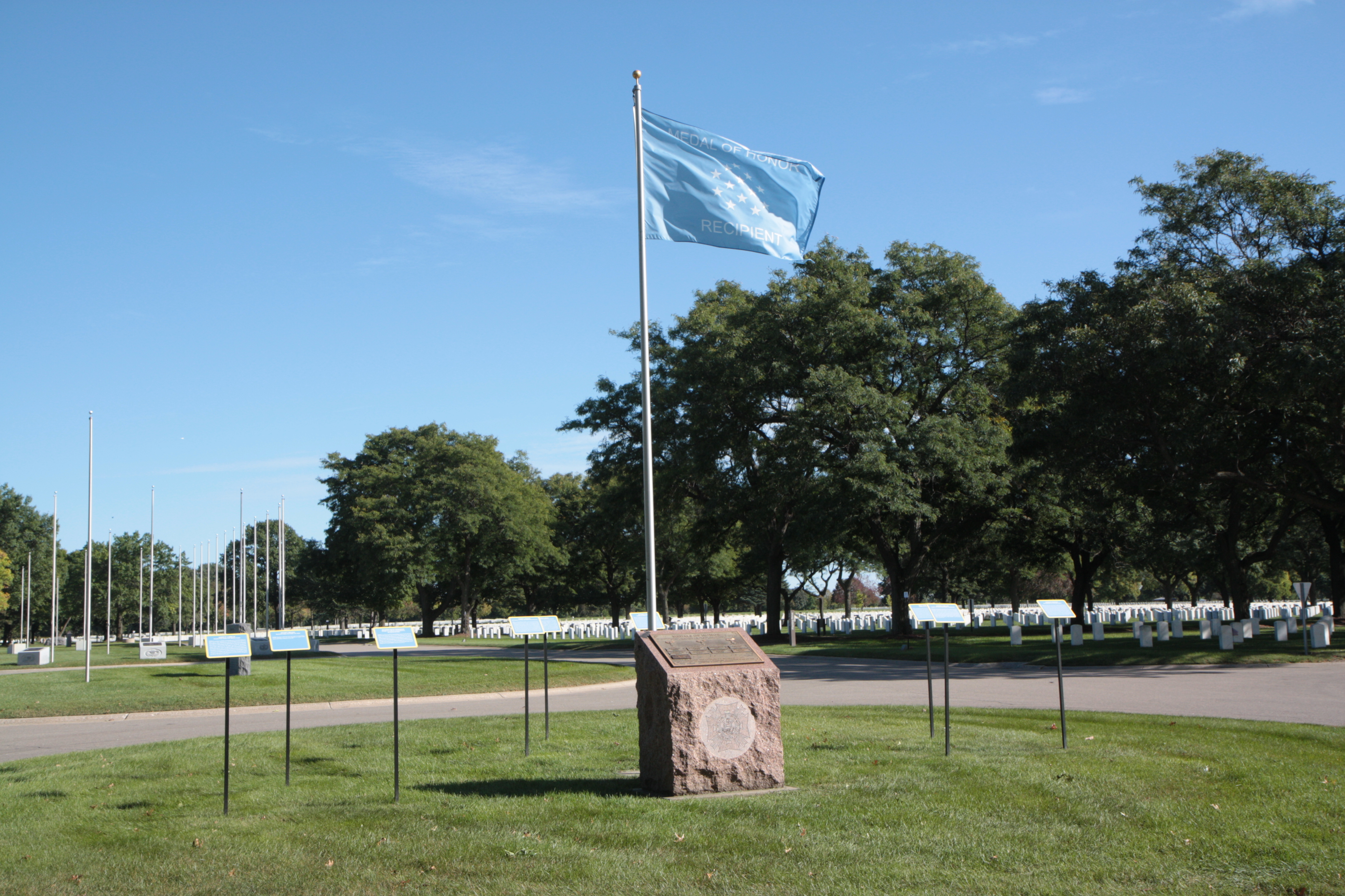 This area of the cemetery honors those who are buried here that earned the Medal of Honor.